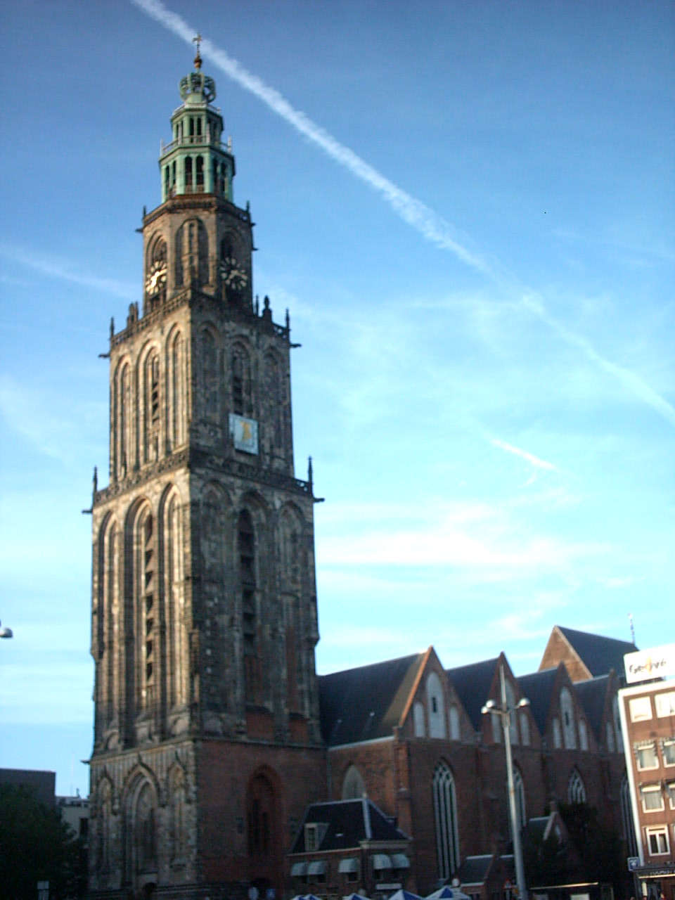 Martini tower (Martinitoren) seen from across the Grote Markt, Groningen, Netherlands.